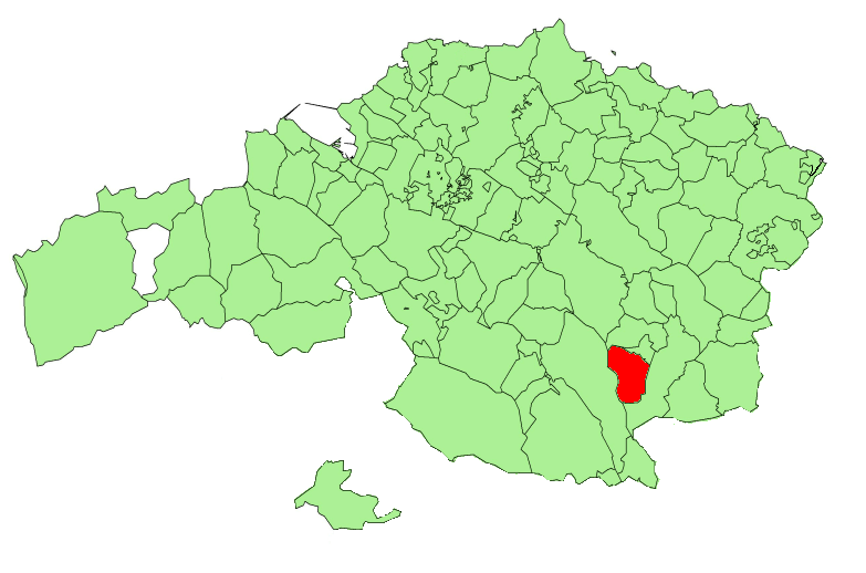 Mañaria municipality in the province of Biscay